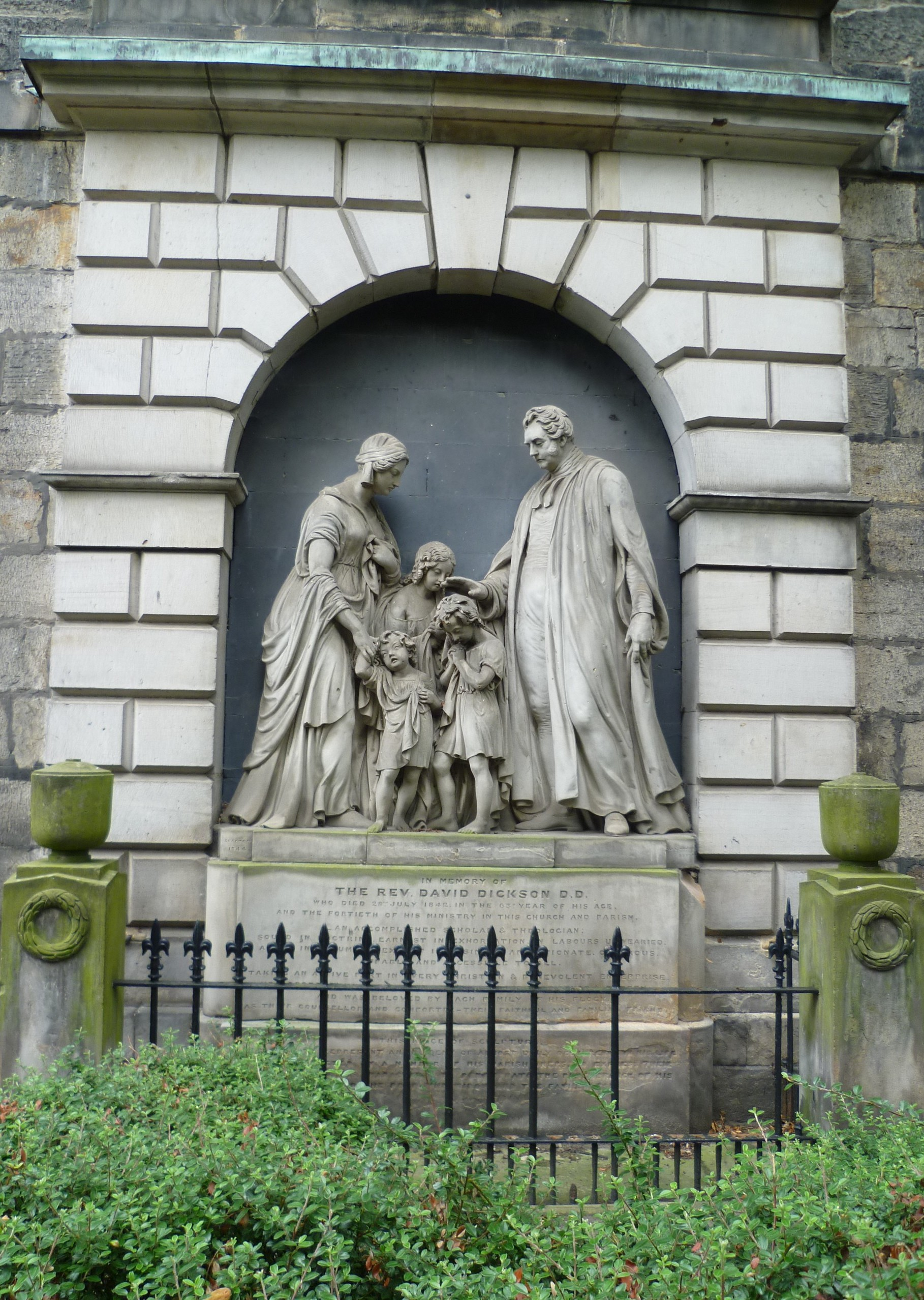 Memorial to the Rev. Mr. David Dickson, minister of St. Cuthbert's (c.1840)